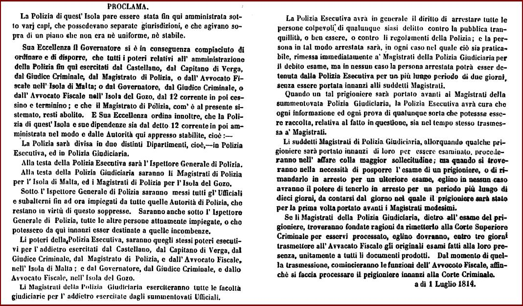 Proclamation XII of Sir Thomas Maitland, governor of Malta for foundation of Malta Police Force.